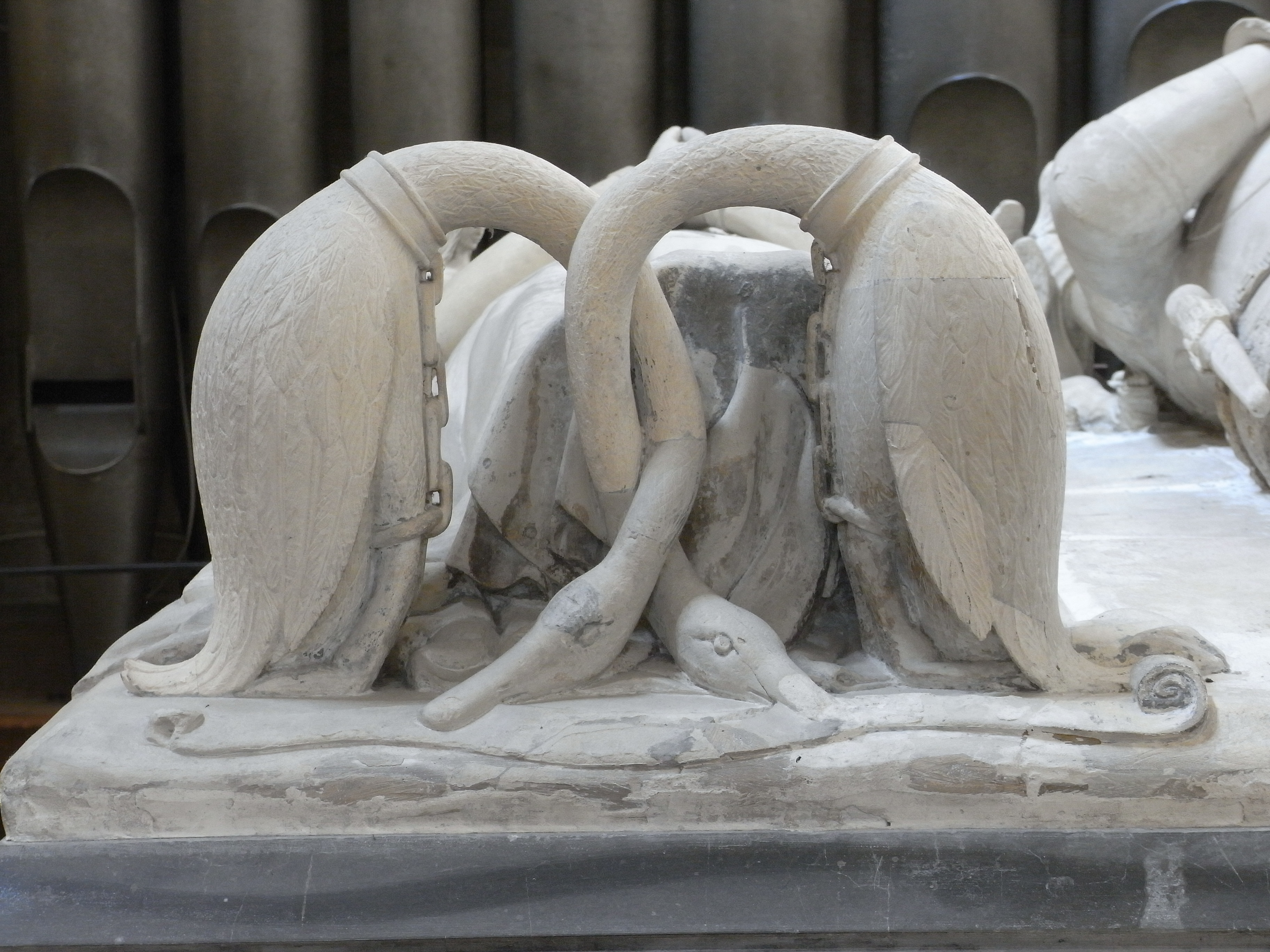 Heraldic swans of Bohun family at feet of effigy of Margaret de Bohun (daughter and heiress of Humphrey de Bohun, 4th Earl of Hereford and Earl of Essex), wife of Hugh de Courtenay, 2nd Earl of Devon (1303–1377). On tomb chest in south transept, Exeter Cathedral.